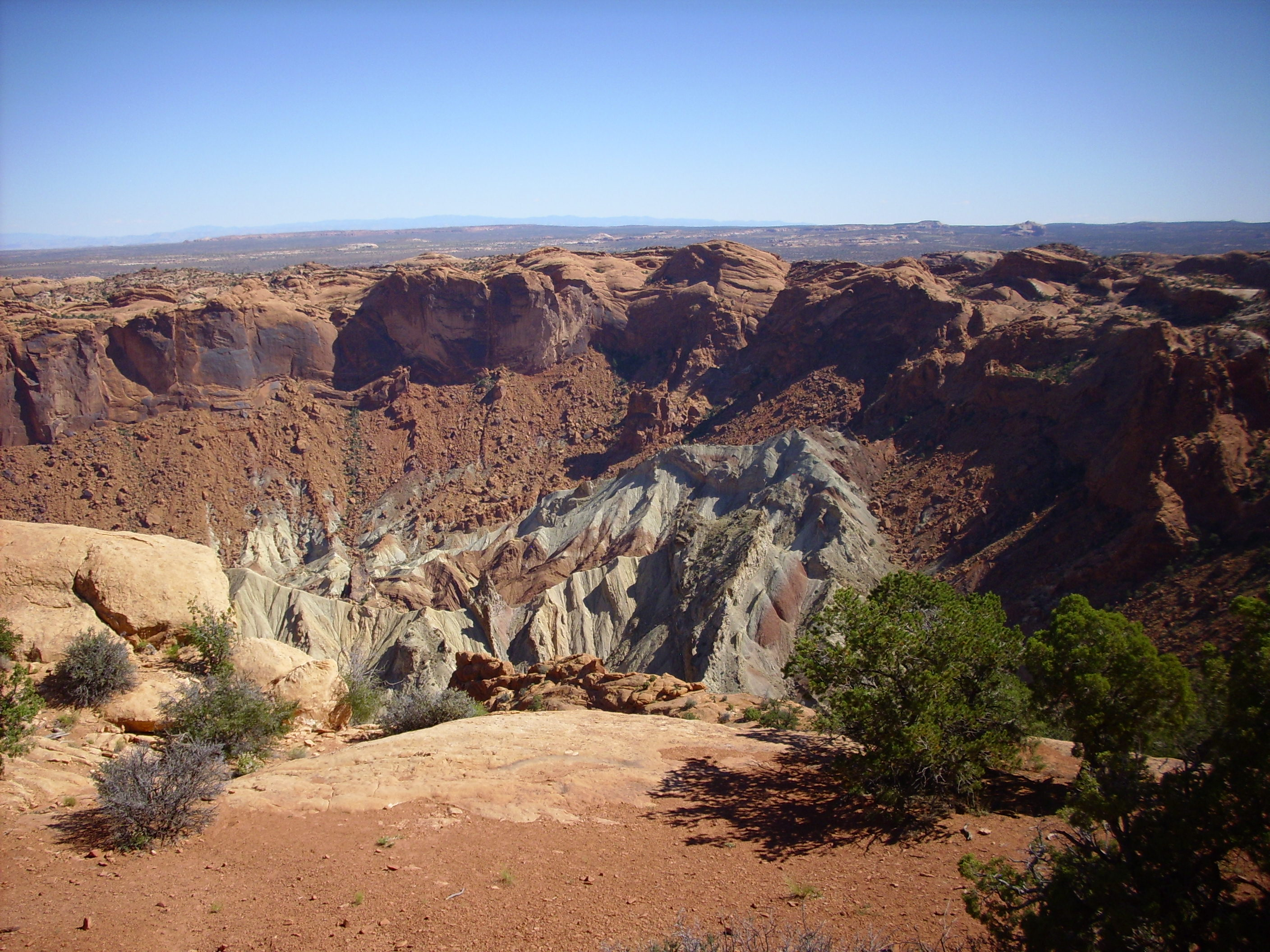 This image shows the central area of Upheaval Dome, an impact structure in Canyonlands National Park, USA. This was long thought to be a salt dome, but the discovery of shocked quartz and shatter cones in the center of the structure confirmed its impact origin.